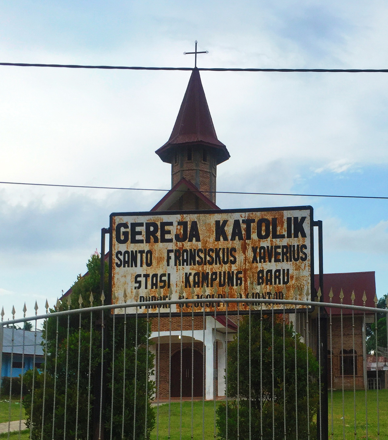 Santo Fransiskus Xaverius Catholic Church